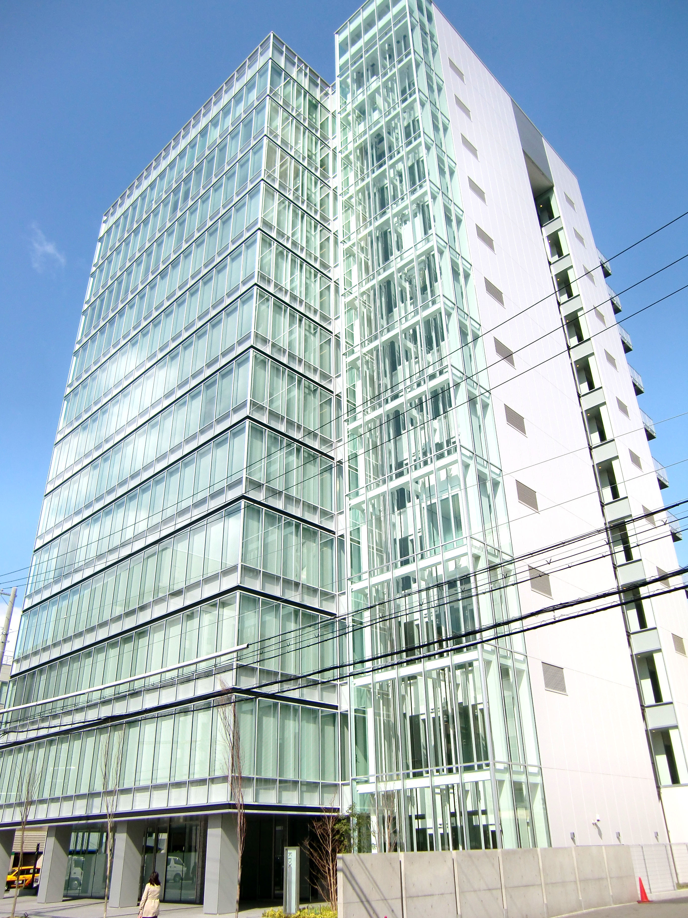 KDX Kobayashi Doshomachi Building,4-4-10 Doshomachi Chuo-ku Osaka-City Osaka Japan.